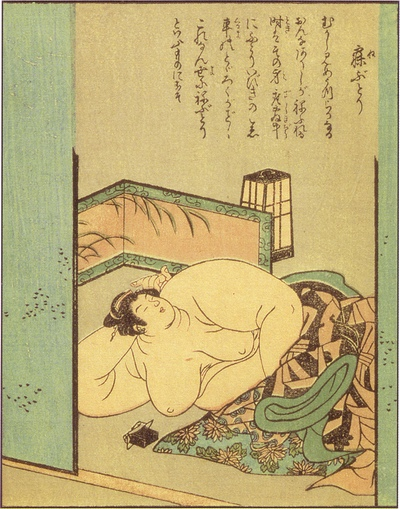 Nebutori (寝肥) from the Ehon Hyaku monogatari (絵本百物語)